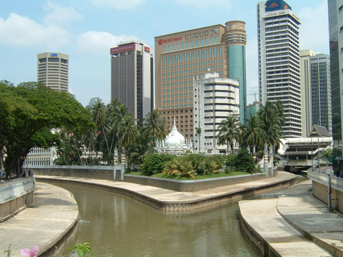 By Mohd Hafiz Noor Shams. User __earth. Replacing Image:PICT2413.JPG.